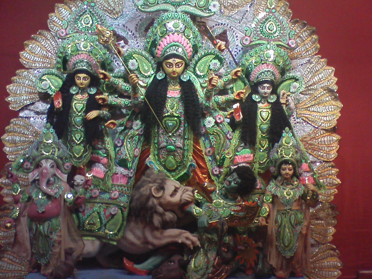 This is an idol of Durga Pooja , comprising of Goddess Durga, her daughters Laxmi , Saraswati and her sons Ganesha, Karitik